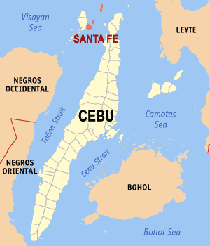 Map of Cebu showing the location of Santa Fe